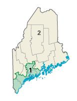 Image adapted from US fed gov't source Category:Congressional districts of Maine